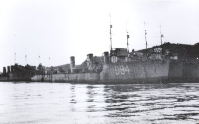 Photograph of British destroyer HMS Meteor